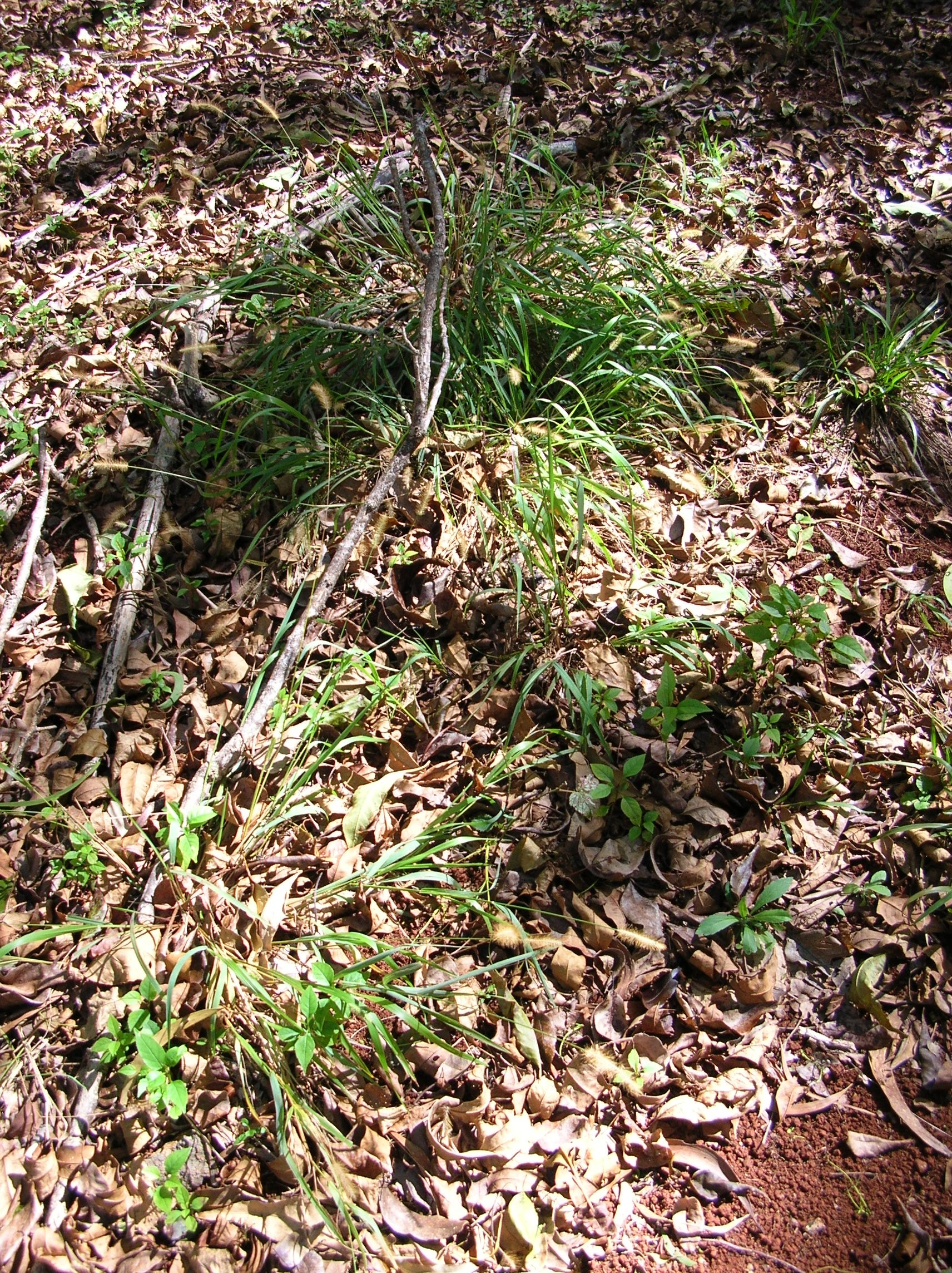 Setaria parviflora (habit). Location: Maui, Makawao Forest Reserve